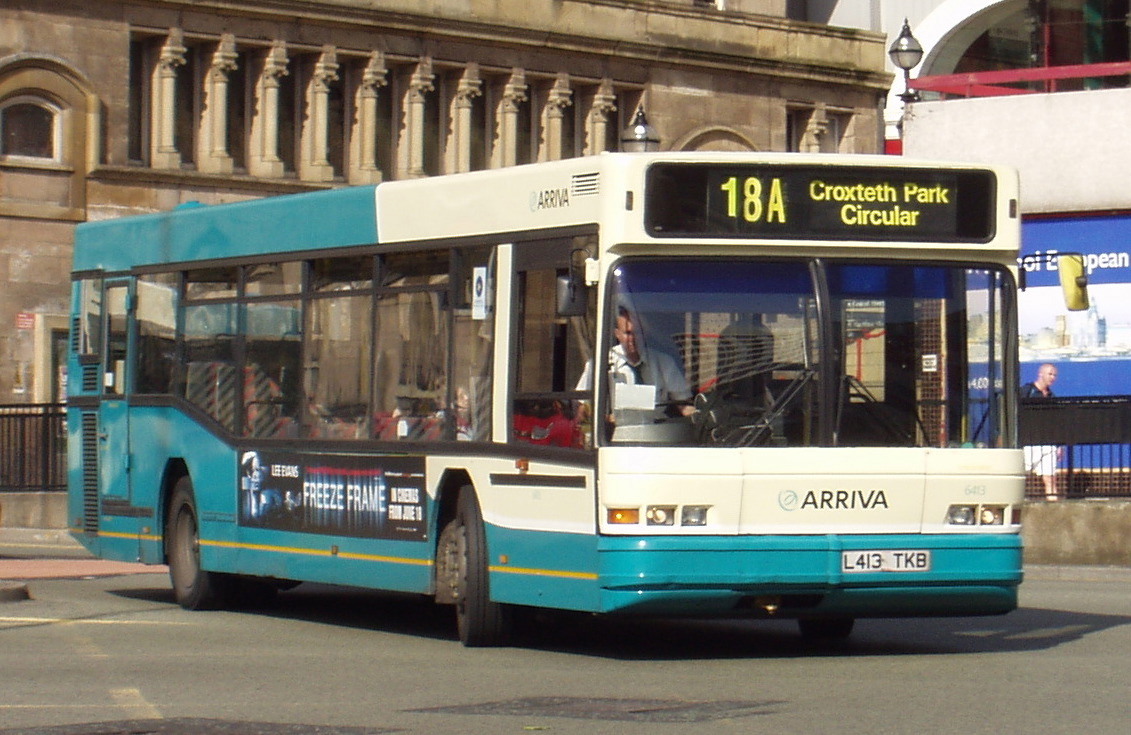 A Neoplan N4016 low floor bus in the Arriva North West and Wales fleet, pictured on Lime Street, Liverpool. Year built 1994?